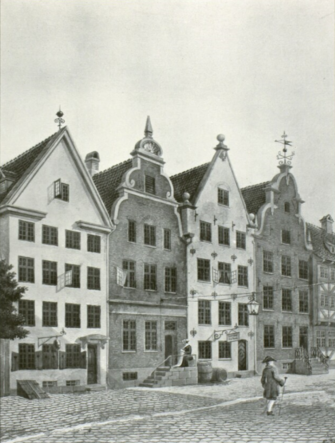 Old houses in Lille Kongensgade where Magasin du Nord is located today in Copenhagen, Denmark